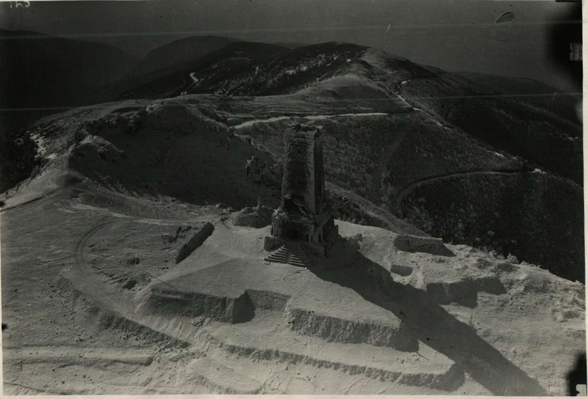 Aerial photograph of the Liberty Monument, St. Nikola Peak near the Shipka pass. Picture taken between 1927 and 1934.